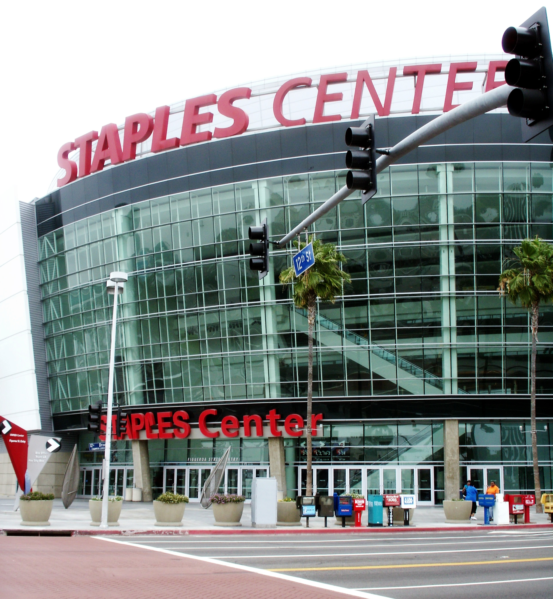 View of the Staples Center